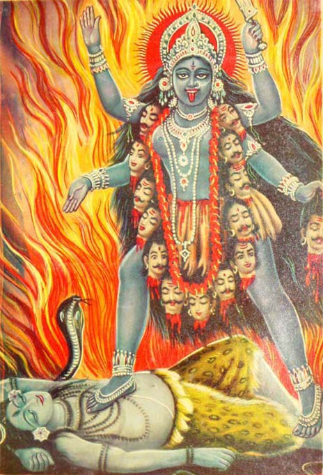 With a flaming background that evokes the end of the world (bazaar art, c.1940's)